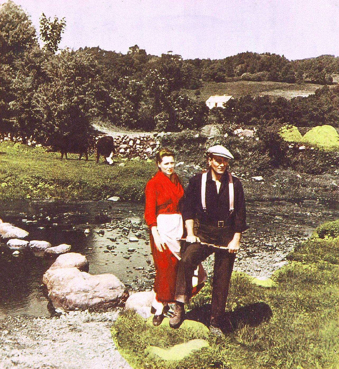 Photo from The Quiet Man (1952). Pictured are John Wayne and Maureen O’Hara.